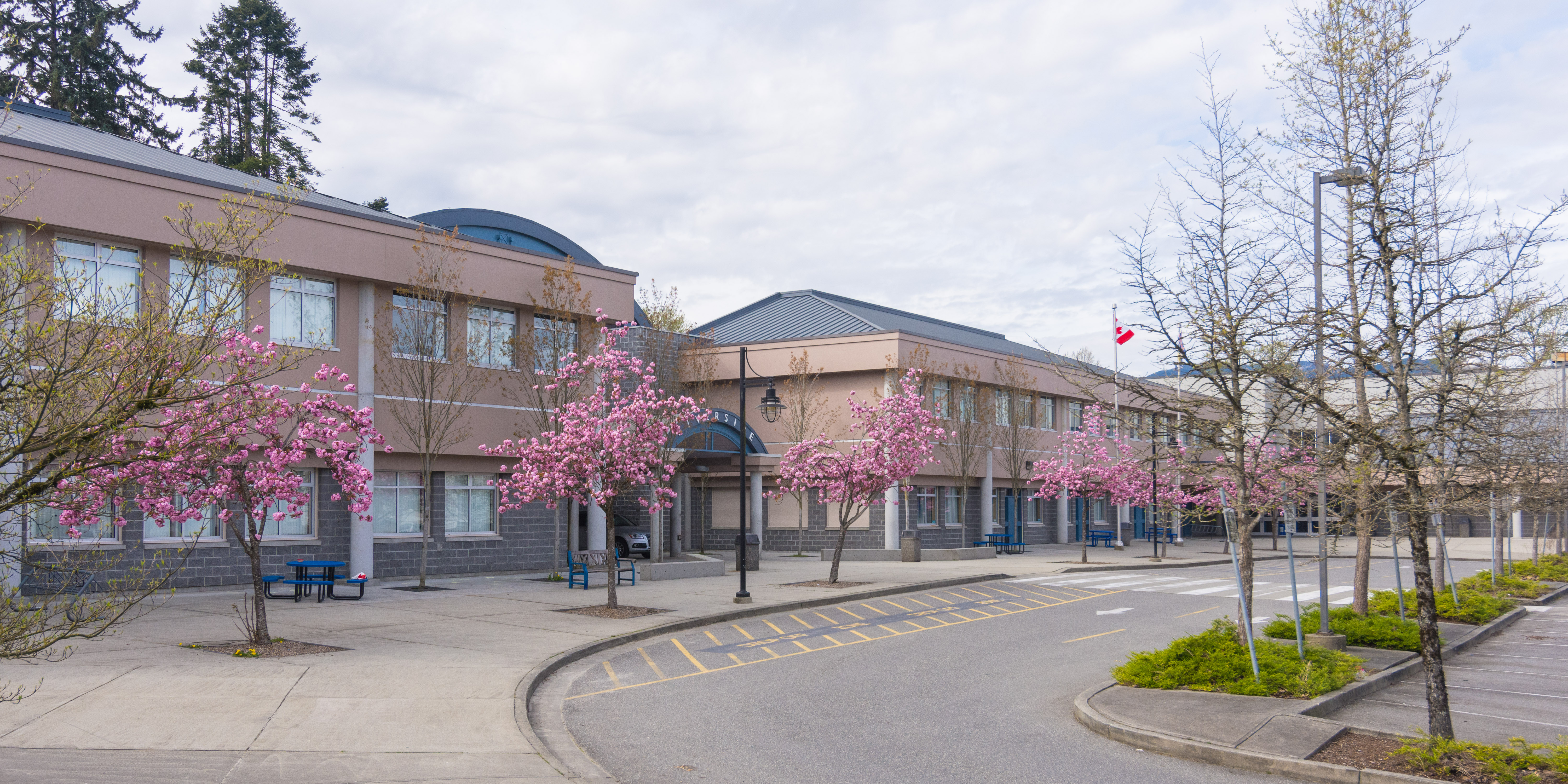 The front of Riverside Secondary in Port Coquitlam, BC.